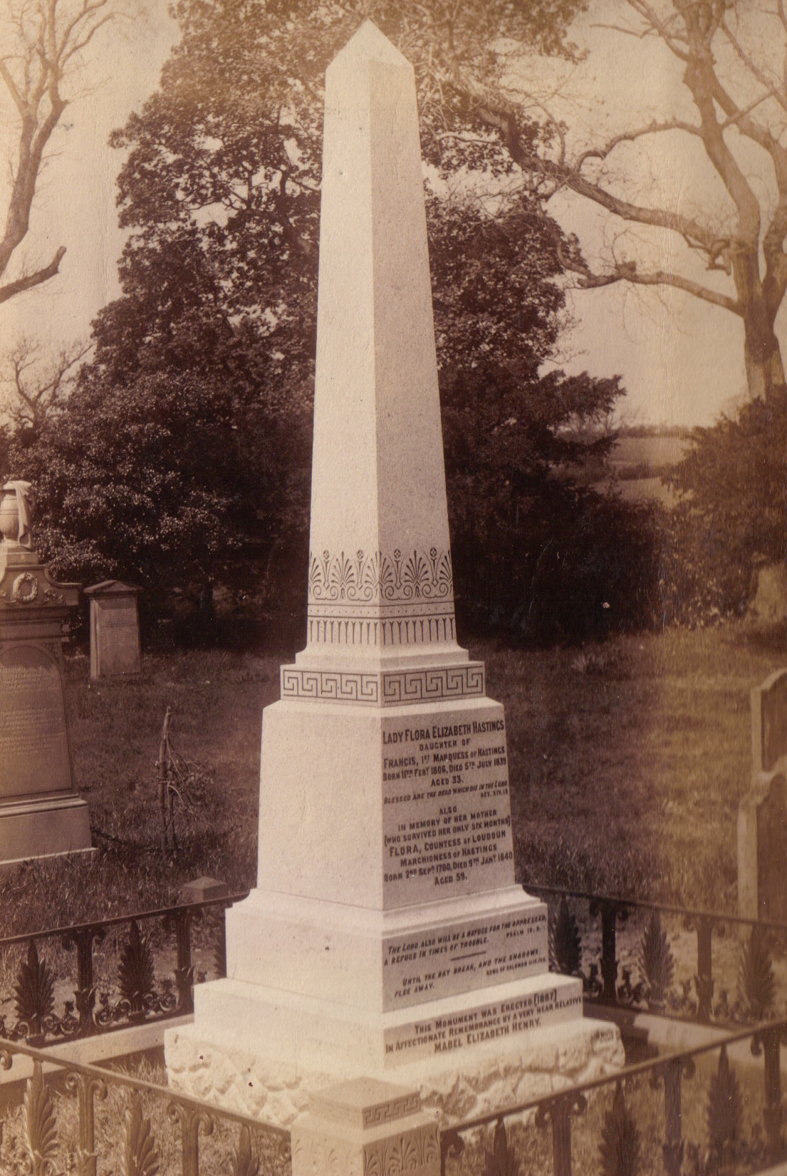 The memorial of Lady Flora Hastings, her niece and her mother at Loudoun Kirk, Galston, East Ayrshire, Scotland